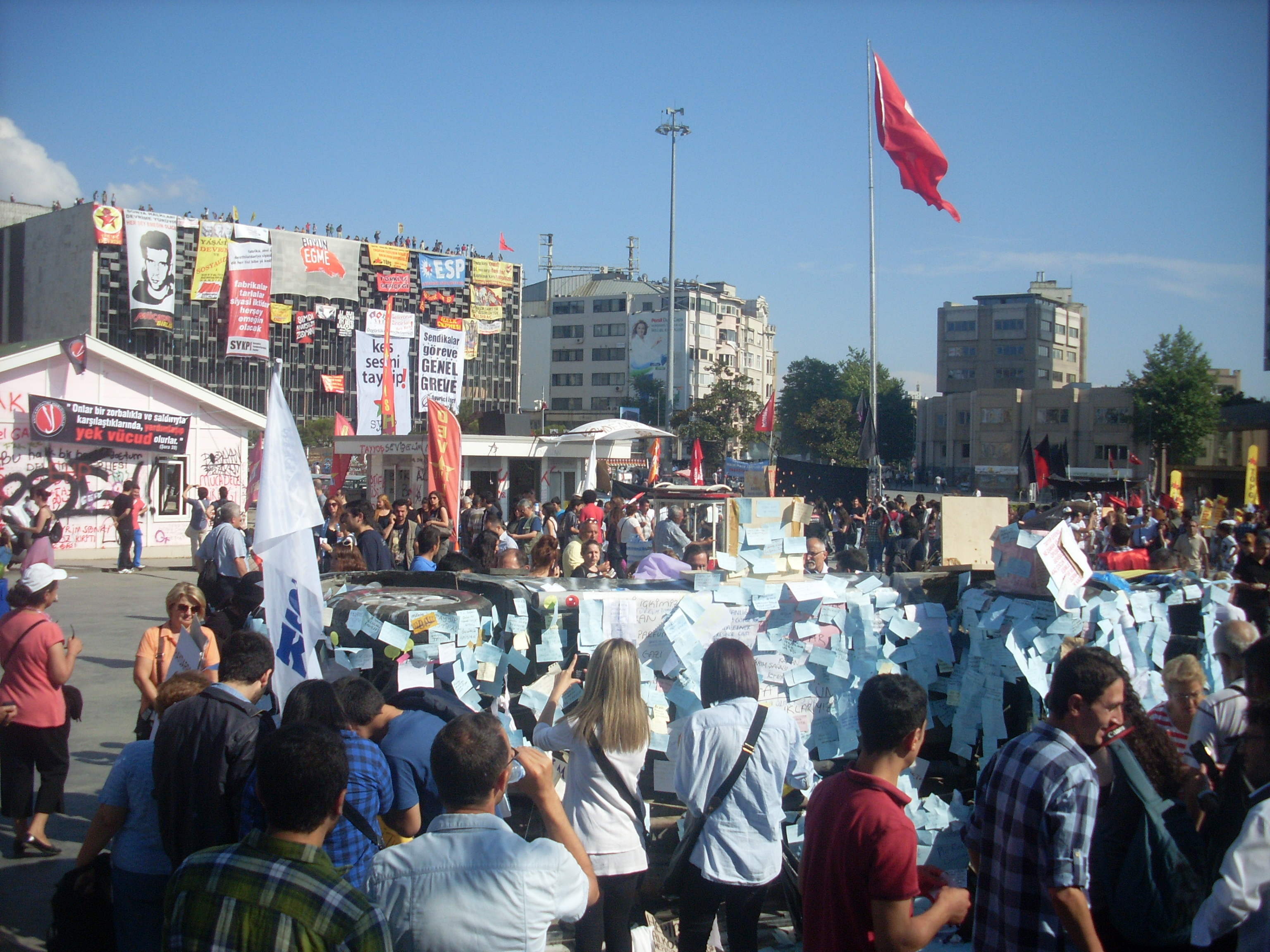 2013 Taksim Gezi Park protests, a view from Taksim Square 2 on 4th June 2013